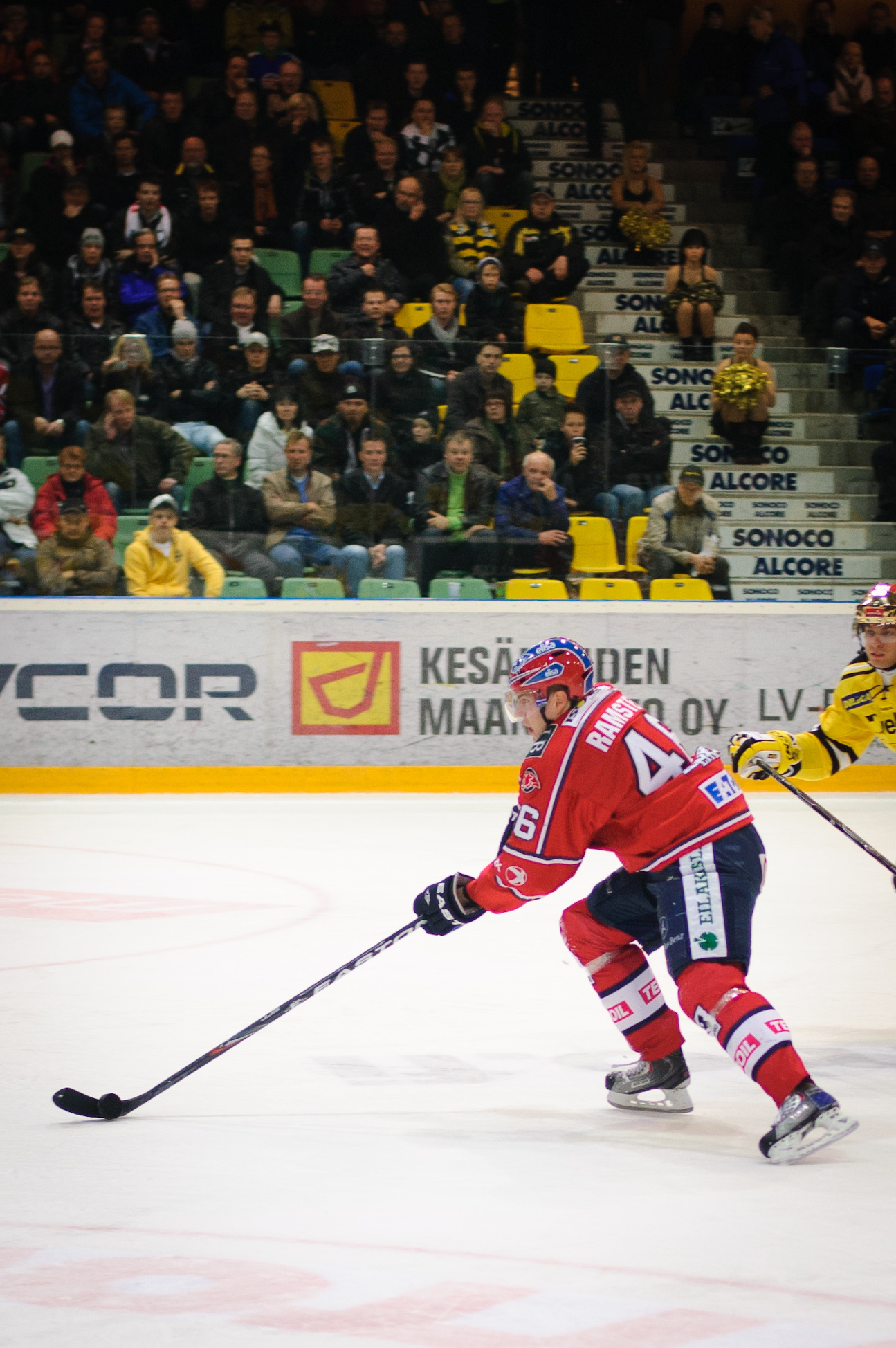 Finnish ice hockey player Teemu Ramstedt playing for IFK Helsinki against SaiPa Lappeenranta in the Finnish SM-liiga in Lappeenranta, Finland.